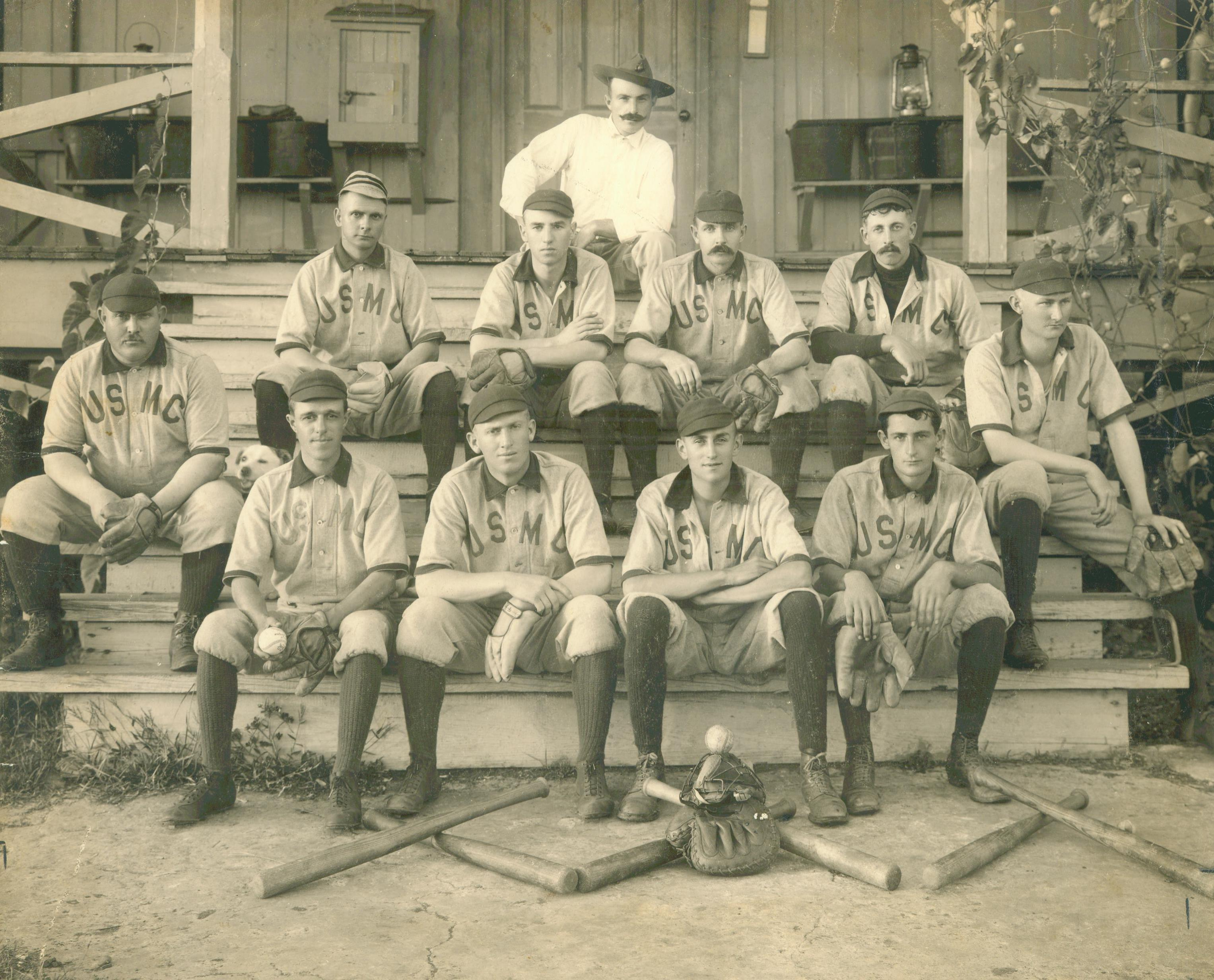 "Company B, Second Regiment, U.S. Marines, Olongapo, Philippine Islands. March 1903." From the Presley M. Rixey Collection (COLL/1046), Marine Corps Archives & Special Collections OFFICIAL USMC PHOTOGRAPH